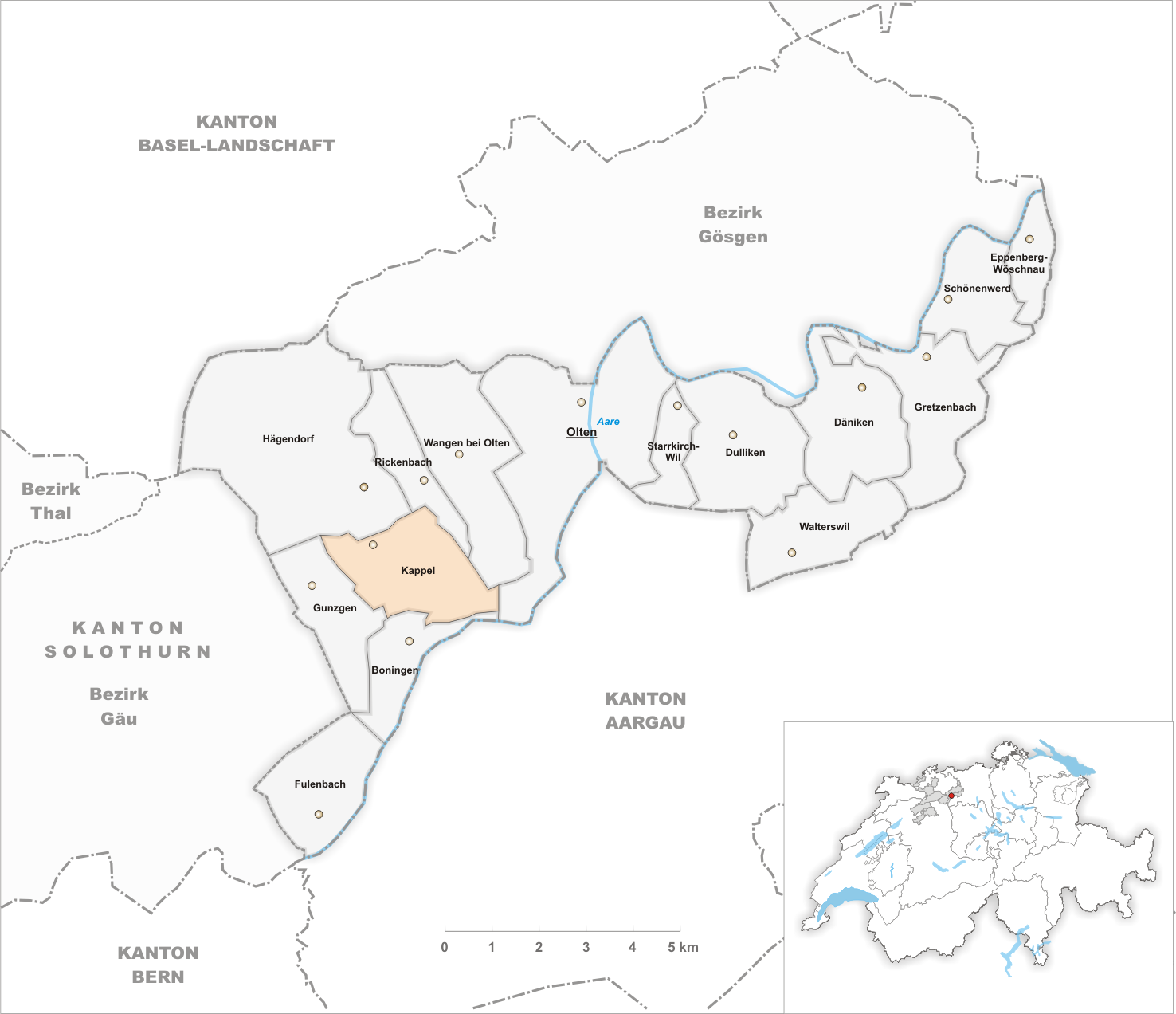 Municipality Kappel